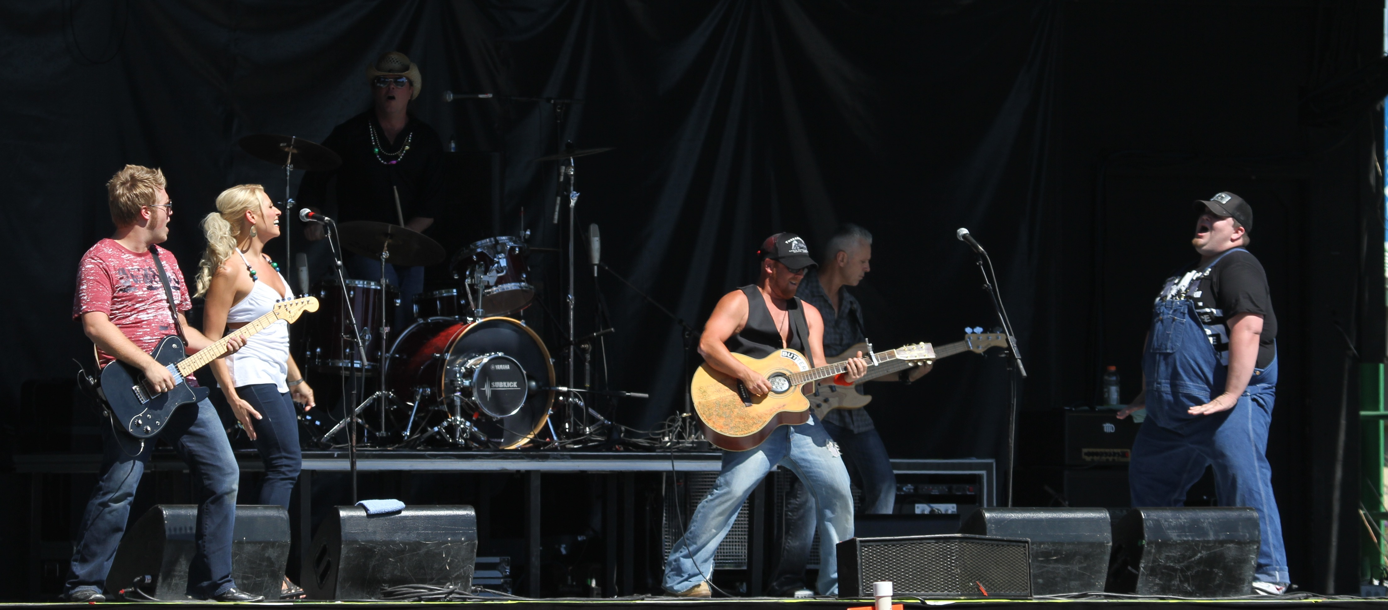 Trailer Choir performing at the 2010 New York State Fair (Chevy Court concert series)